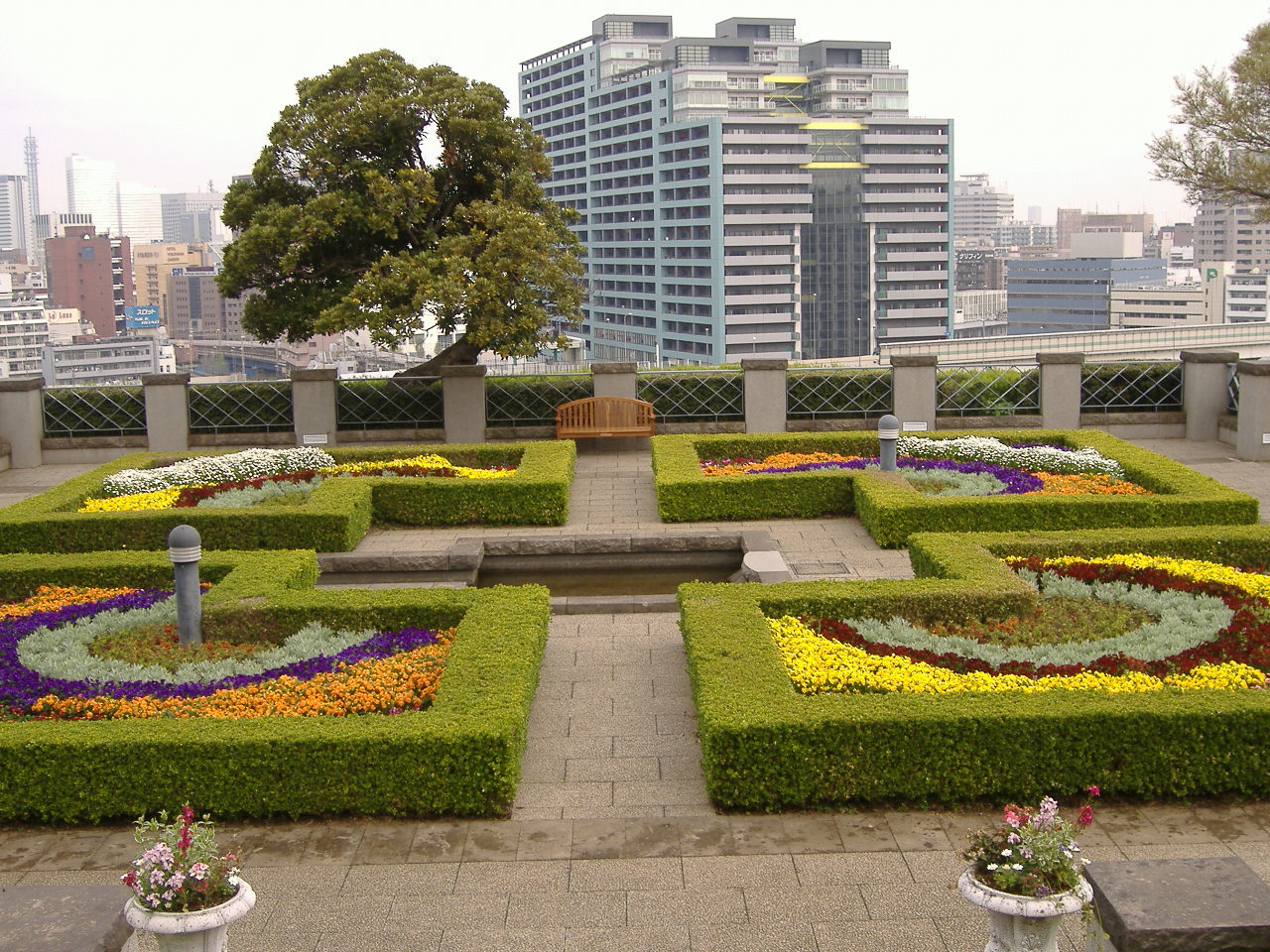 Yamate Italian Garden, Yokohama.